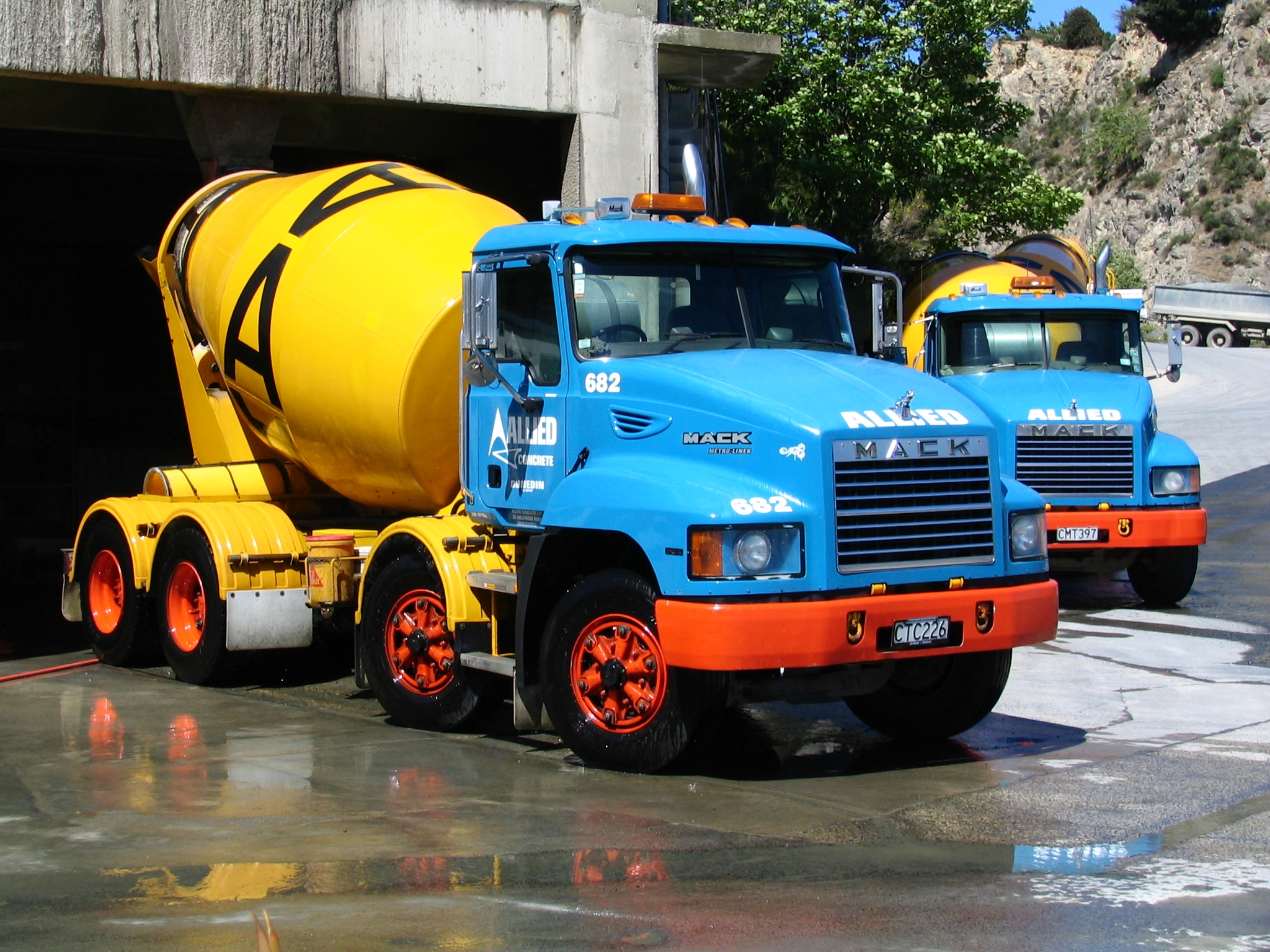 Mack Metro-Liner trucks of Allied Concrete at Logan Point in Dunedin, New Zealand